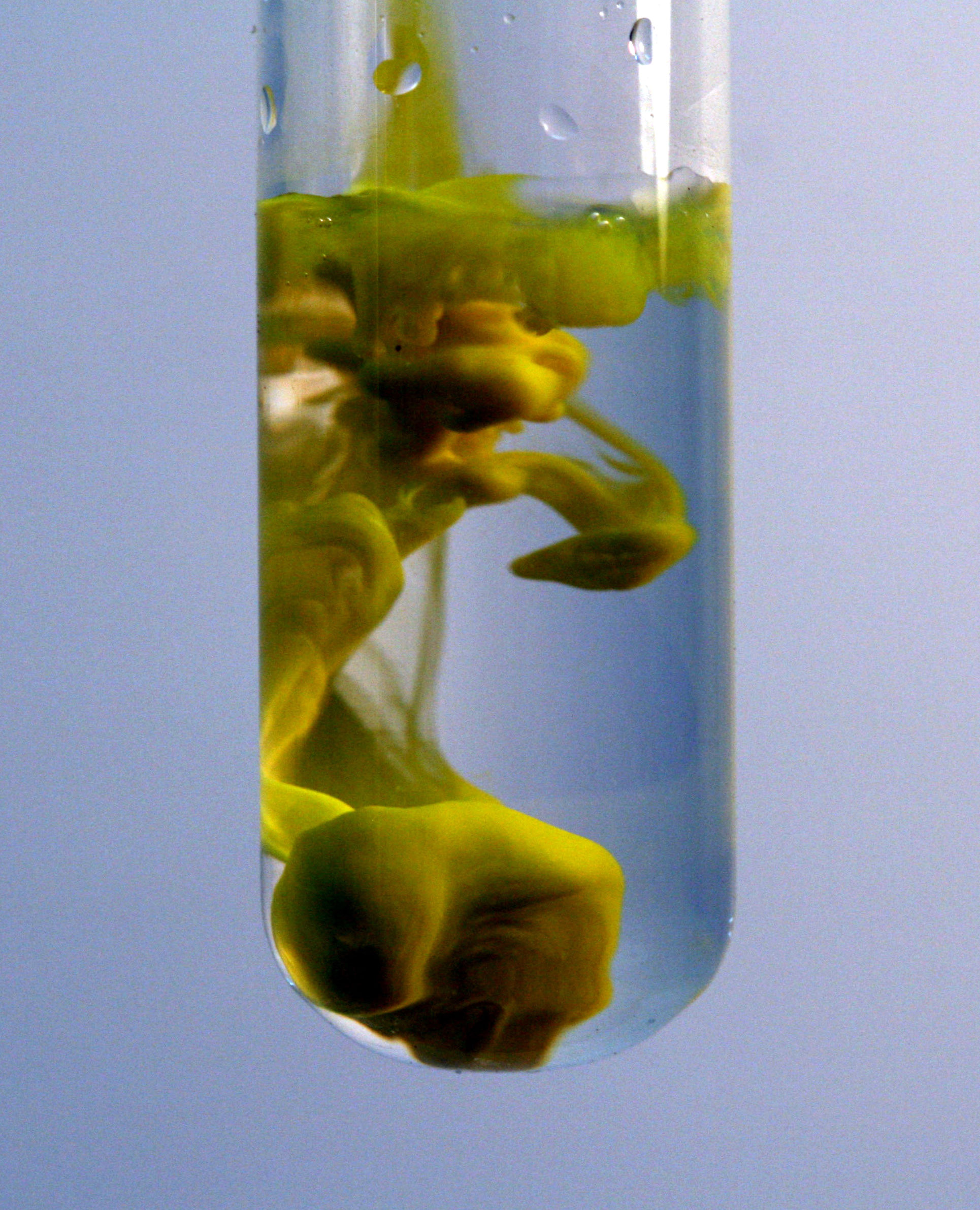 Lead (II) iodide precipitates when potassium iodide is mixed with lead (II) nitrate.